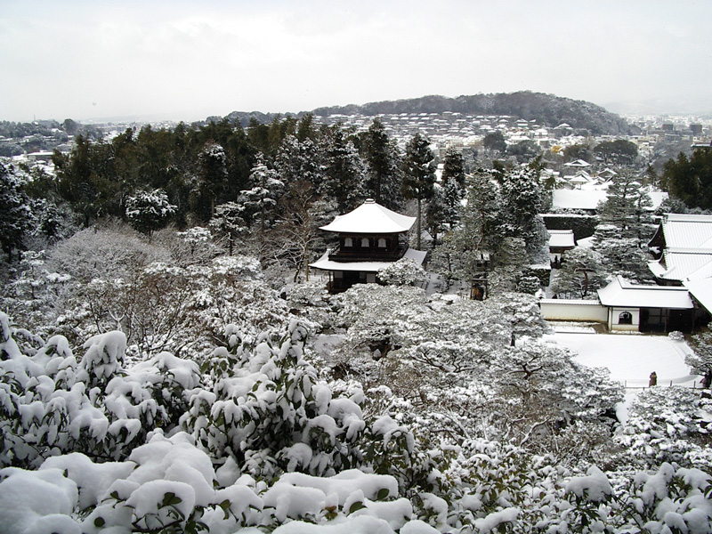 Ginkakuji-temple in a snowy day, Kyoto, Japan.